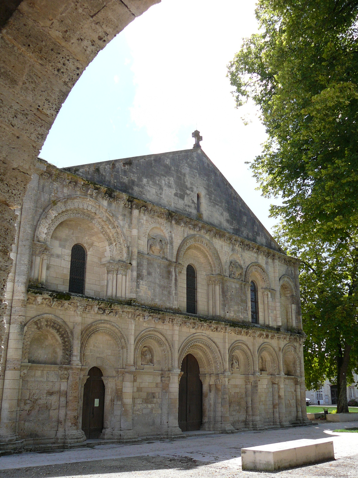 Romanesque church in Surgères. Front. Charente-Maritime (17), Poitou-Charentes, France, Europe.